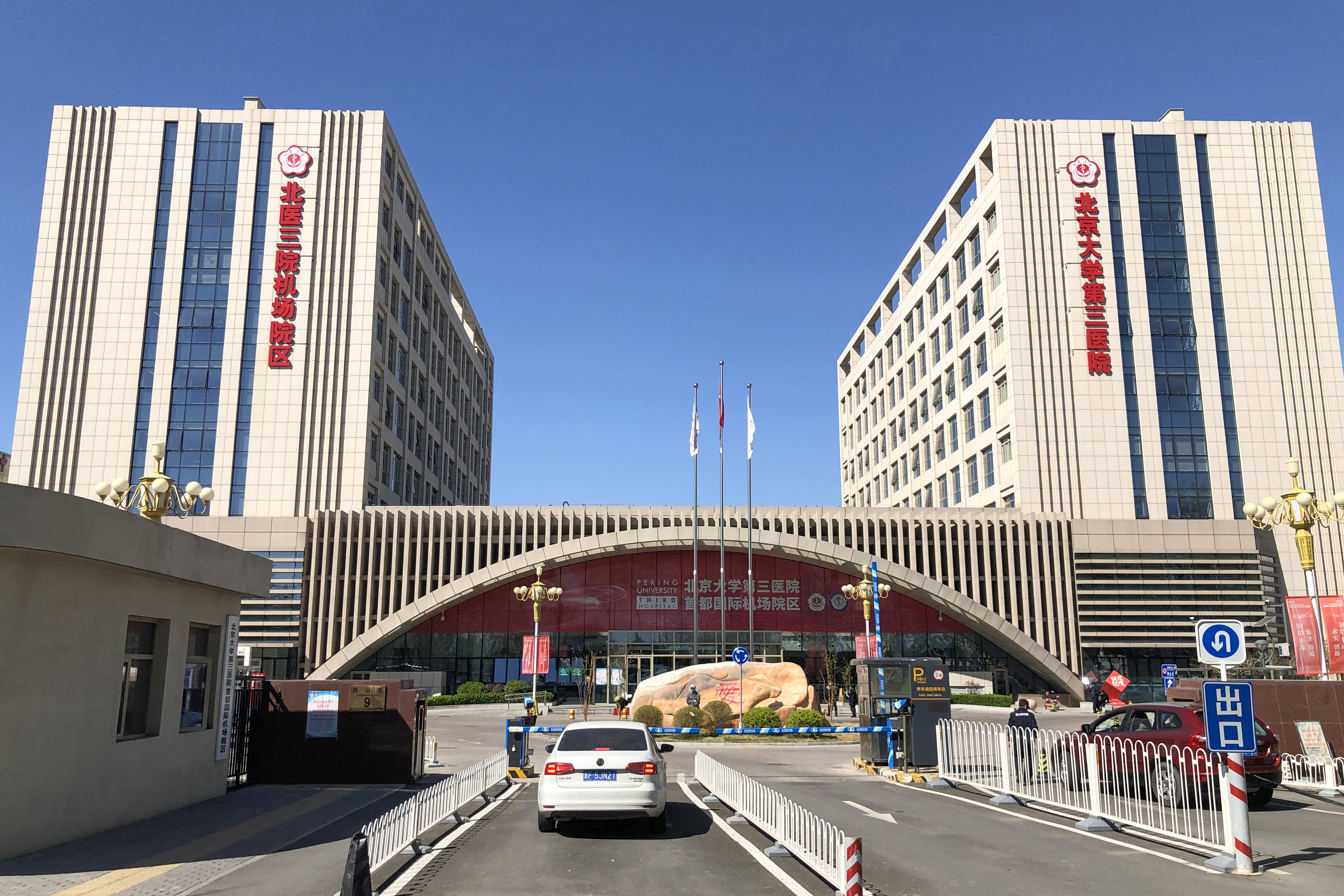 Just opened in 2018.